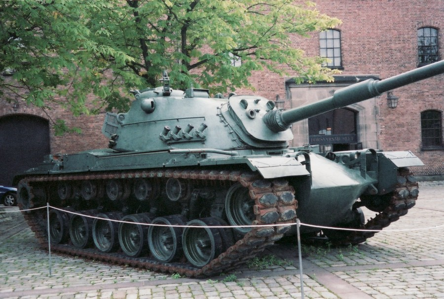 M48A5 tank used by the Norwegian Army until 1993